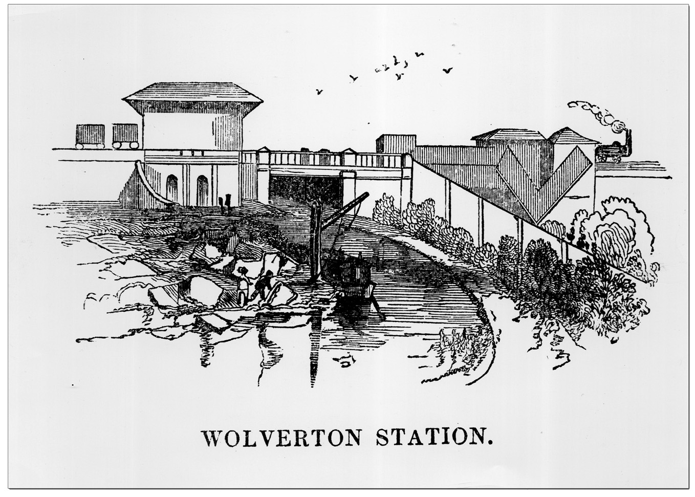 The only surviving drawing of Wolverton's first station.